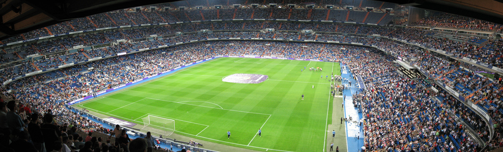 Inside of Santiago Bernabeu Stadium.